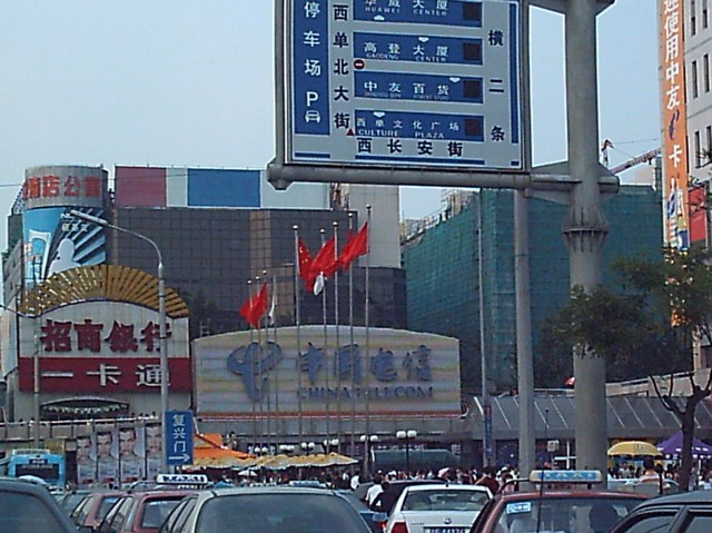 Xidan in Beijing